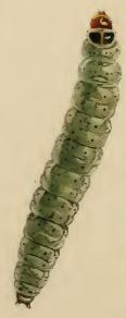 Stainton’s Natural History of the Tineina (1855–1873): Teleiodes vulgella